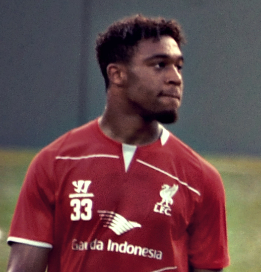 Jordon Ibe at a warm-up before a friendly game Liverpool FC v AS Roma at Fenway Park in Boston.